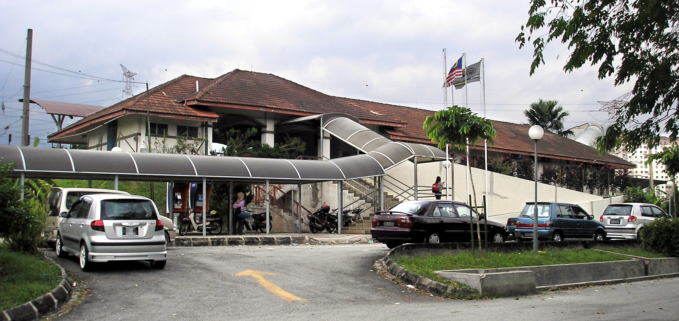 An exterior view of the Salak Selatan station (Rawang-Seremban Line), in Salak South, Kuala Lumpur Malaysia.